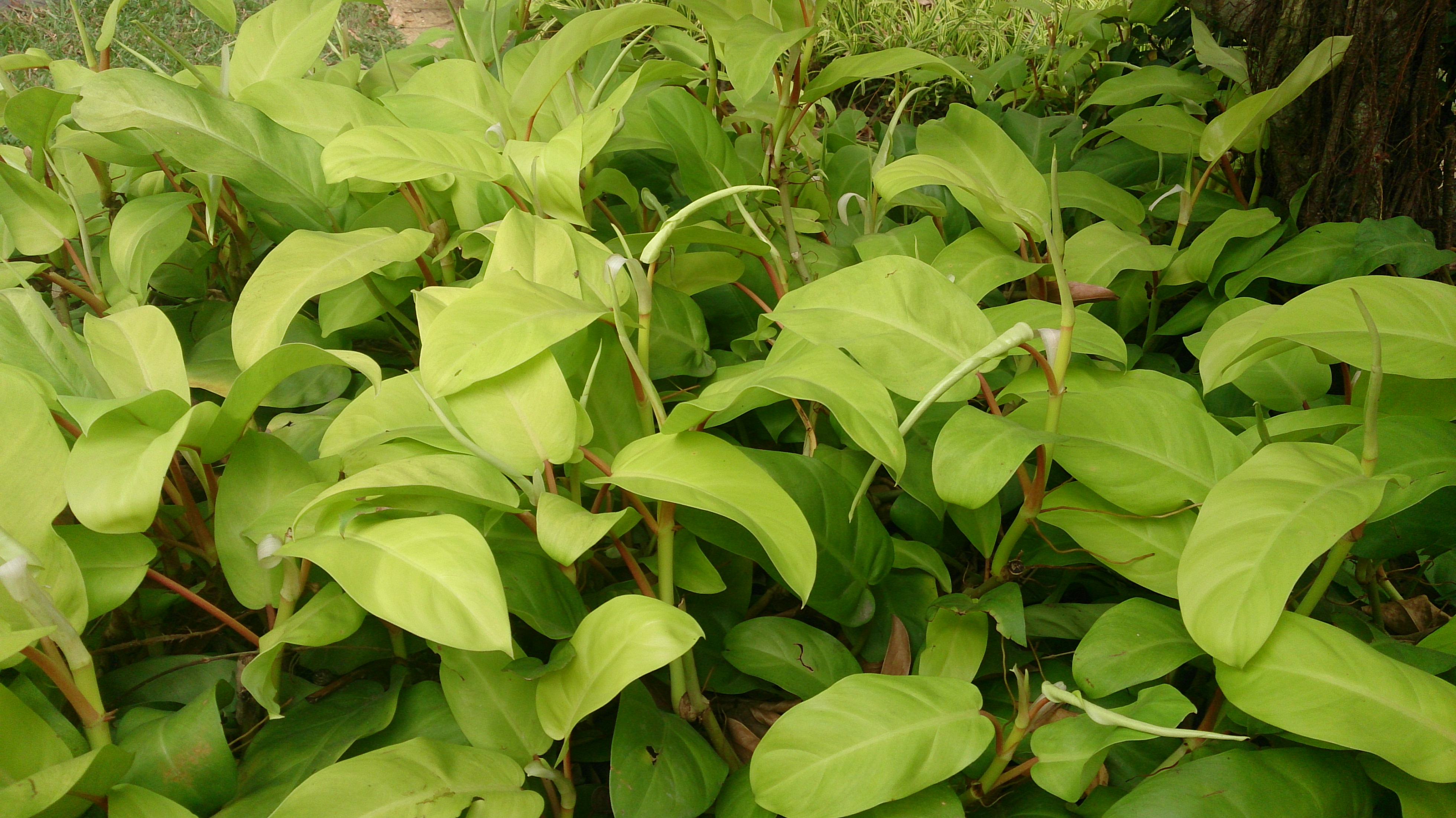 Philodendron erubescens. From Columbia.